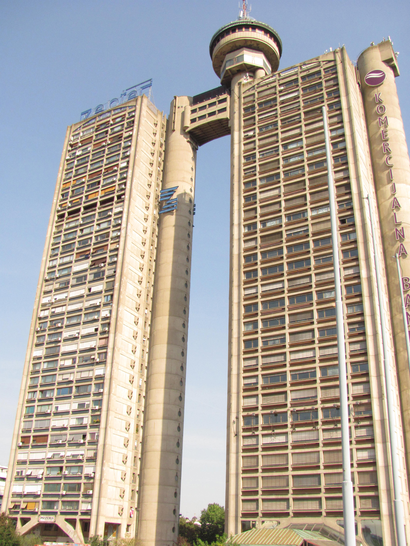 Genex Tower in new district of BelgradeThis photograph was taken with a Canon PowerShot SX120 IS